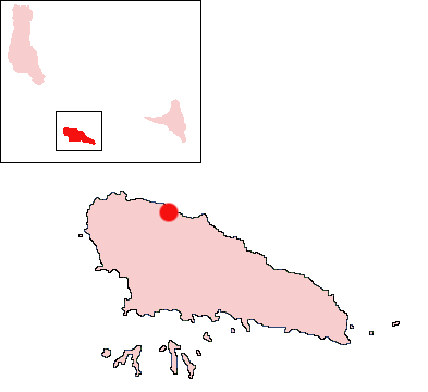 Mtakoudja, Mohéli, Comoros Location Map; created with the GIMP. Made by User:Acntx.